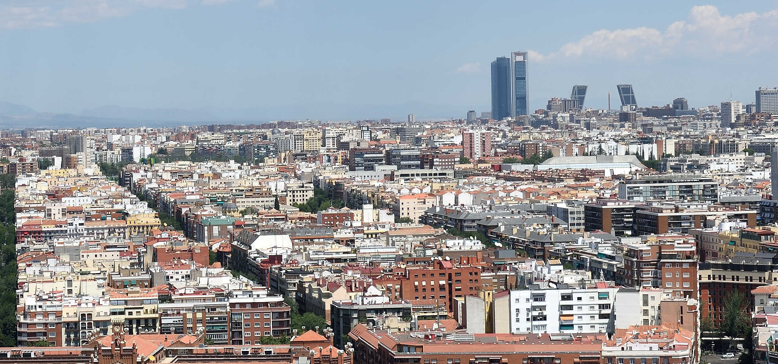 Cuartel de Conde Duque and Madrid skyline